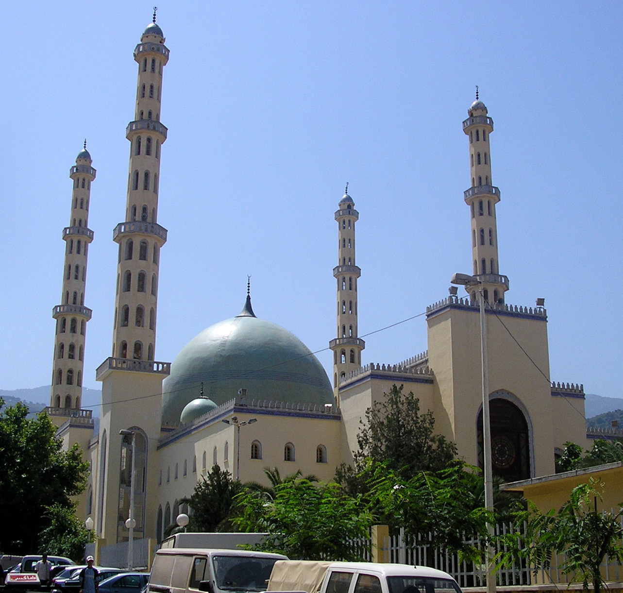 Al-Kawthar Mosque, Blida in Algeria.